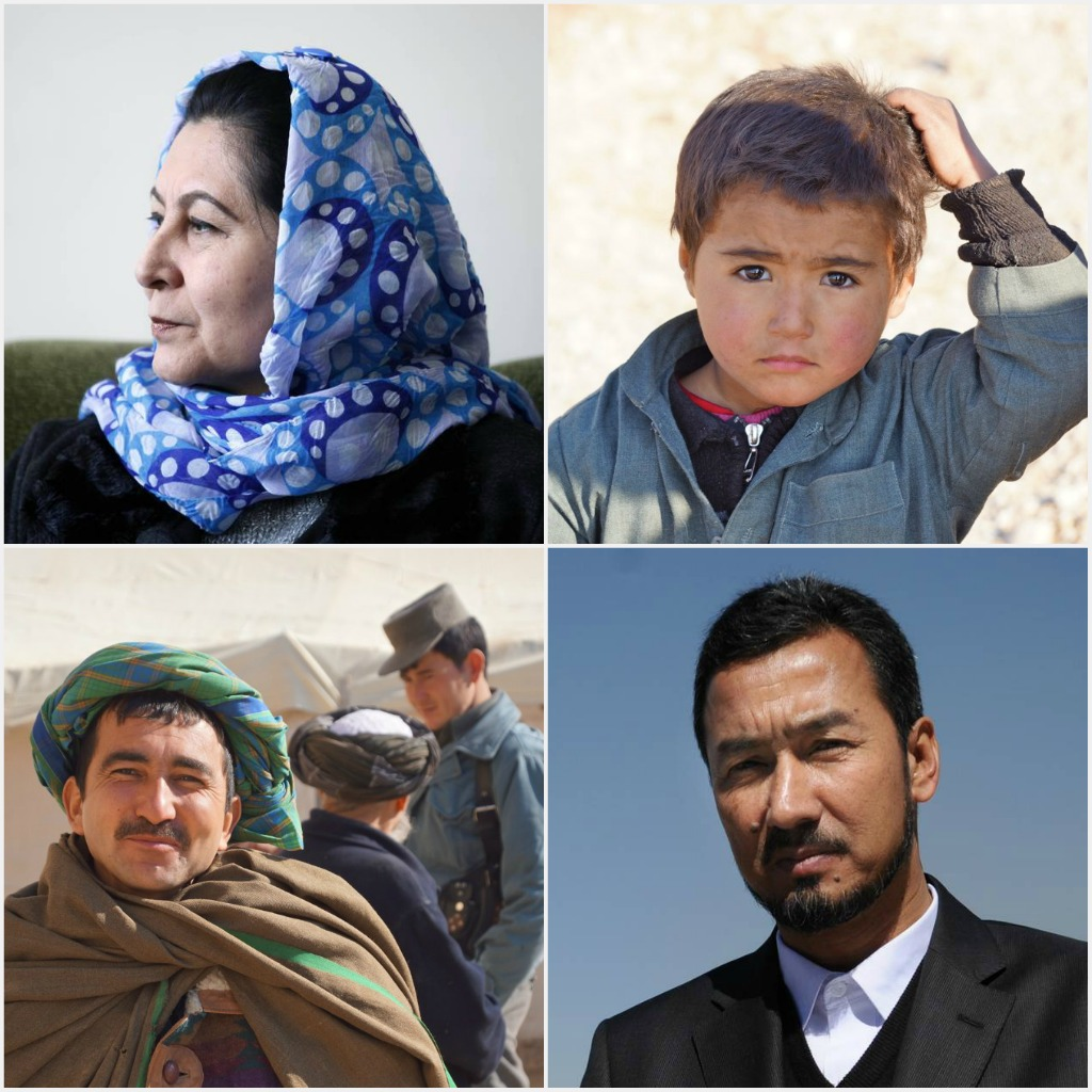 Collage of images showing people who are labelled as Uzbeks. They make up the largest ethnic group in Uzbekistan and the fourth largest in Afghanistan.